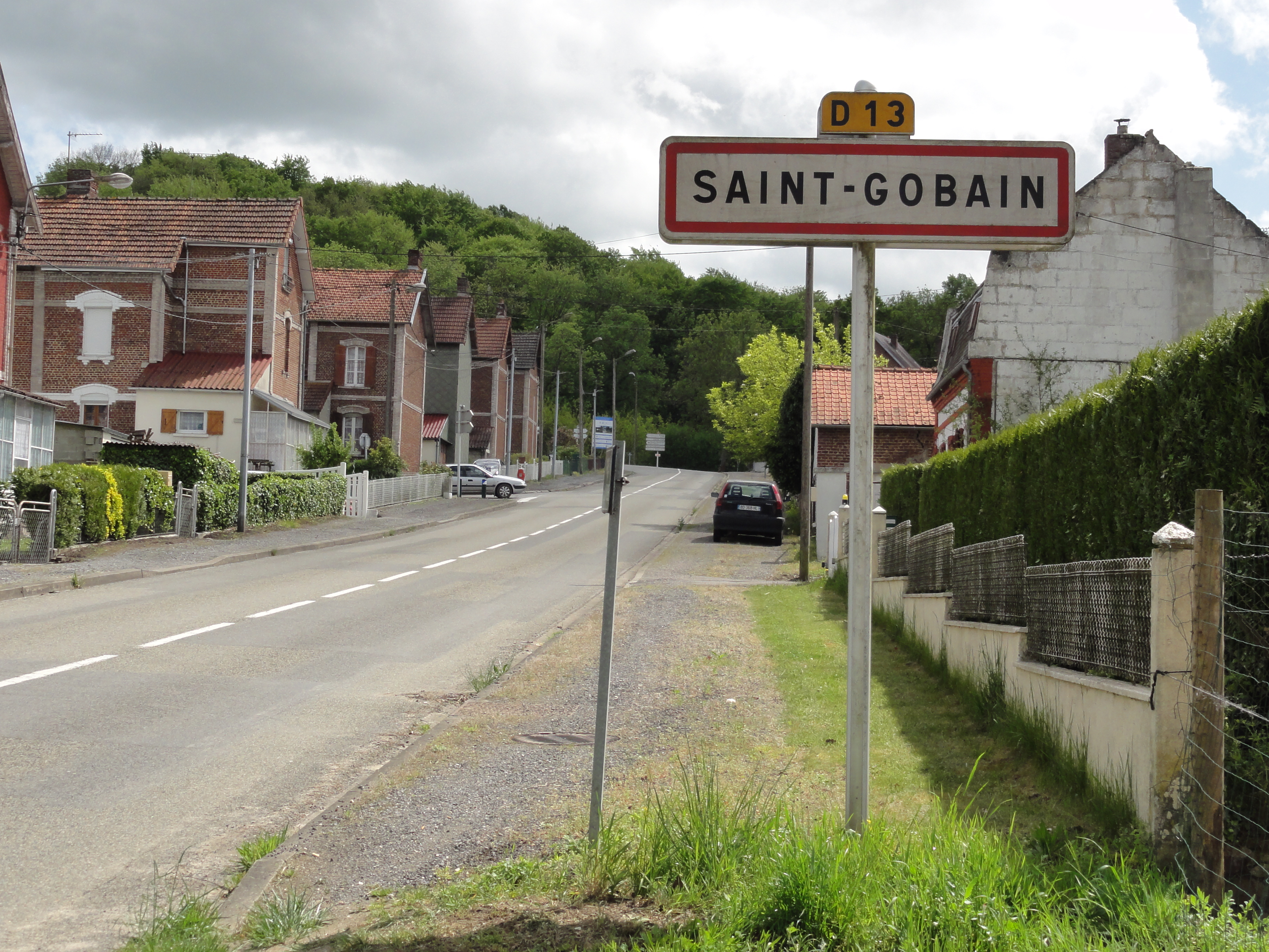 Saint-Gobain (Aisne) city limit sign